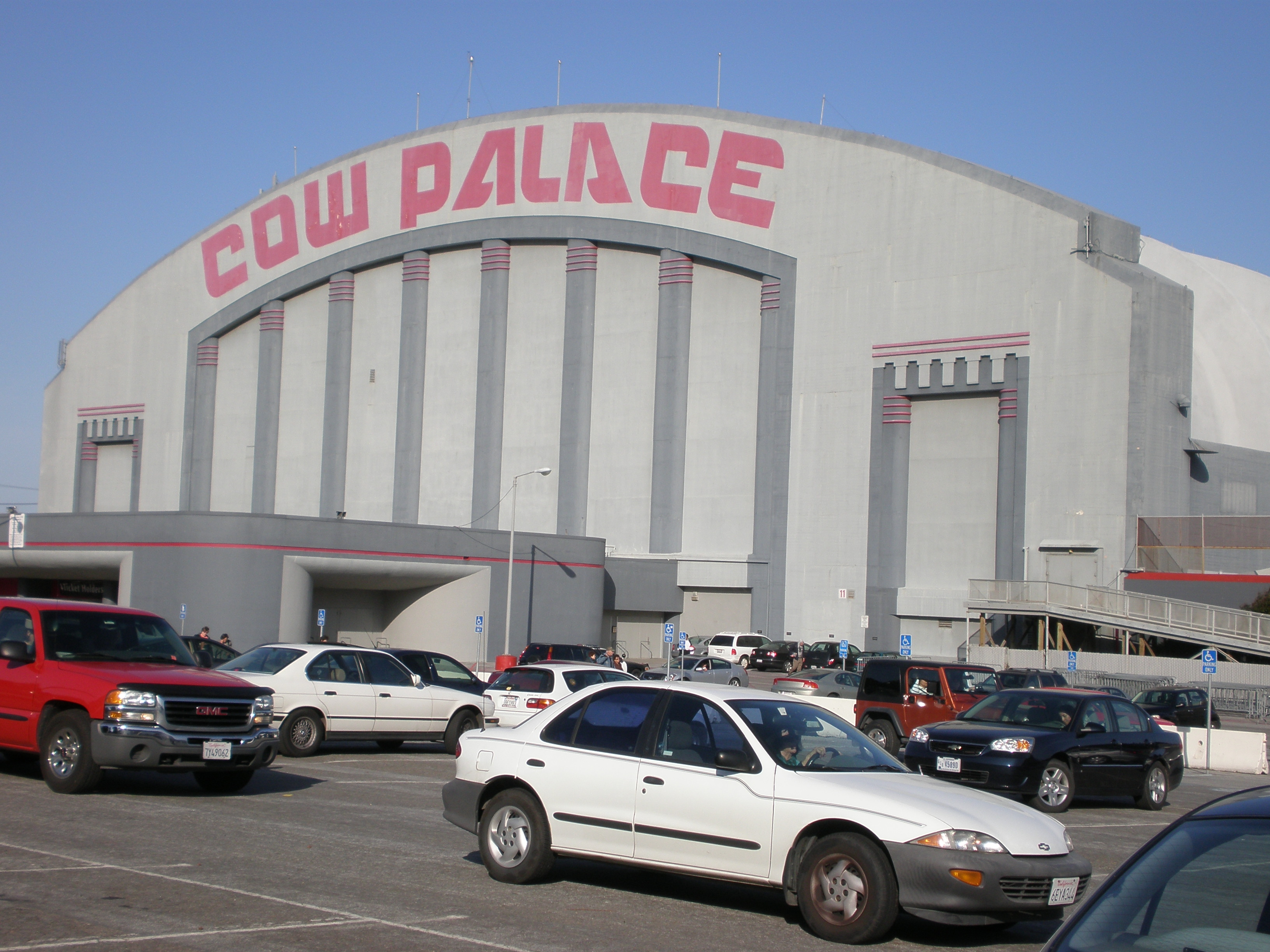 The Cow Palace in Daly City, California.